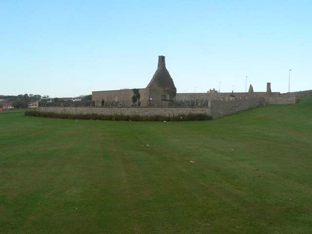 Aberdeen: St. Fittick’s church A ruined church set within a large playing field.